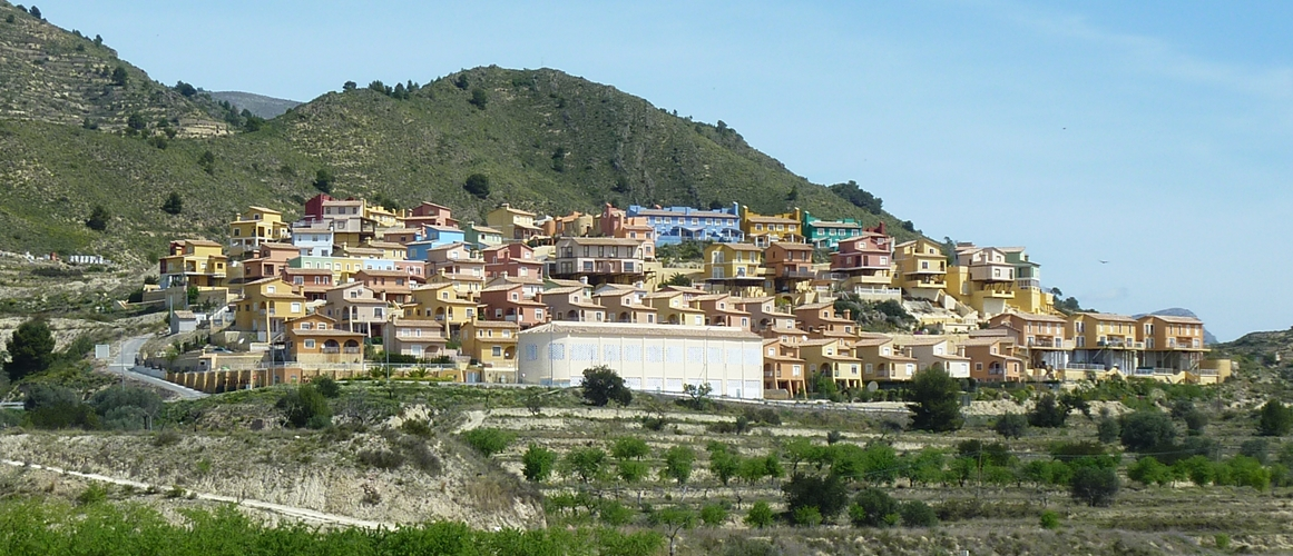 Photo of the Muscaret urbanisation in Relleu Spain